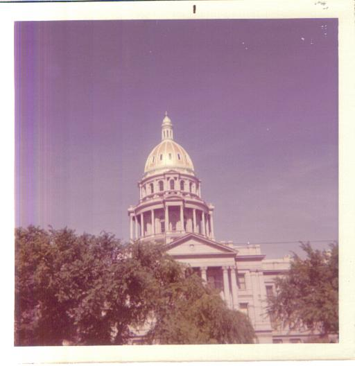 I took photo with Kodak camera at the Colorado state capitol.